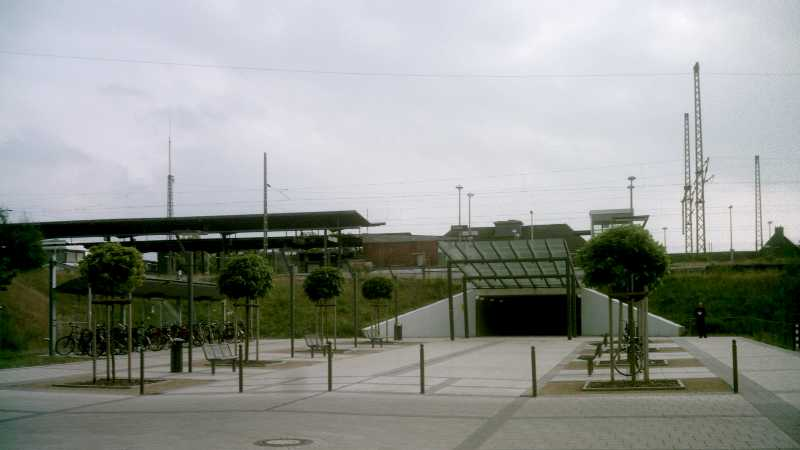 Viersen railway station, seen from Robend City Park in Viersen, Germany.